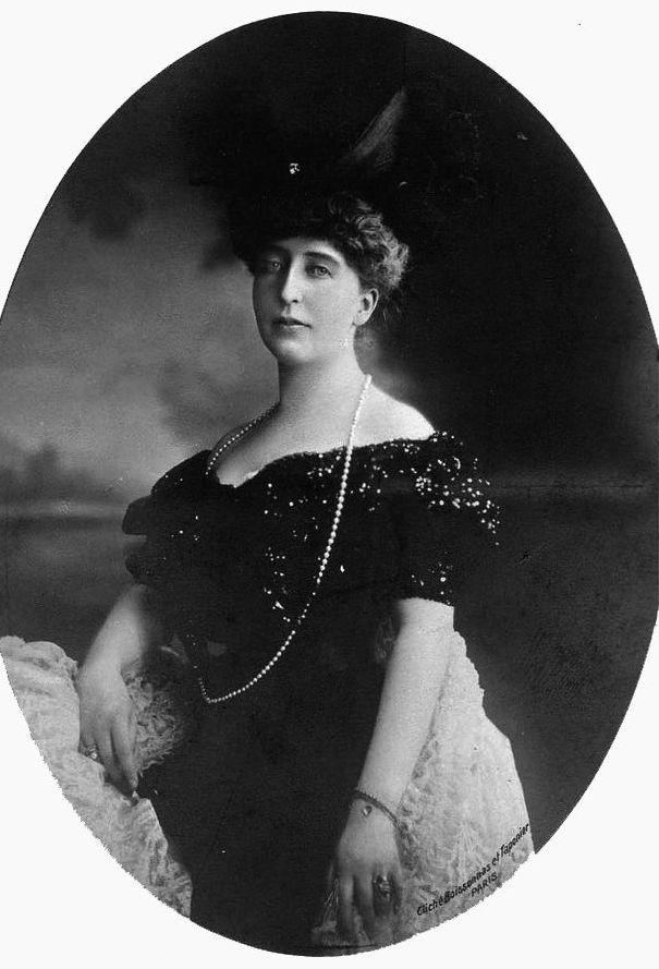 HRH Princess Henriette of Belgium, Duchess of Vendôme